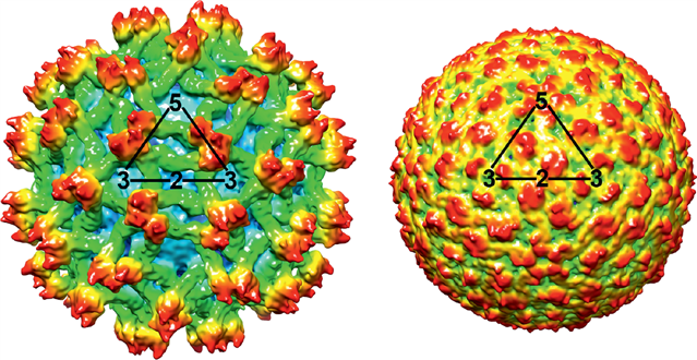 Immature Dengue virus particle (left) and mature particle (right).